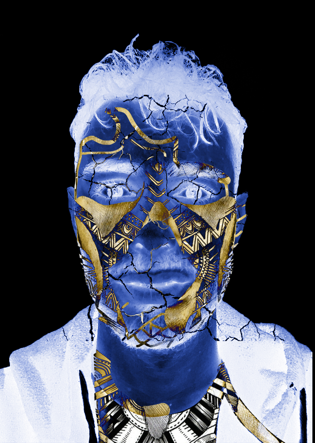 Beyond the Blue Void’ is Sirio’s first oil-based self-portrait (the 2nd version is a digital print photography). While his face is cracked, bits of gold are used to ‘repair' his portrait, as the Japanese tradition of repairing with gold, Kintsugi, suggests that the medium becomes more valuable. Many patterns related to the early Albanian gold embroidered folkloric dresses can be observed, making in this way a link to his culture and it’s importance to self-identity. In this way, different from Blue Void, the golden cracks symbolize light. Created by Sirio Berati (@sirio)